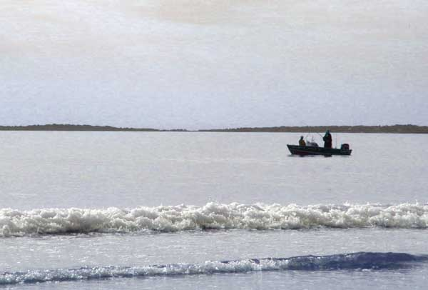 Fishermen on Saco Bay near Old Orchard Beach, York County, Maine